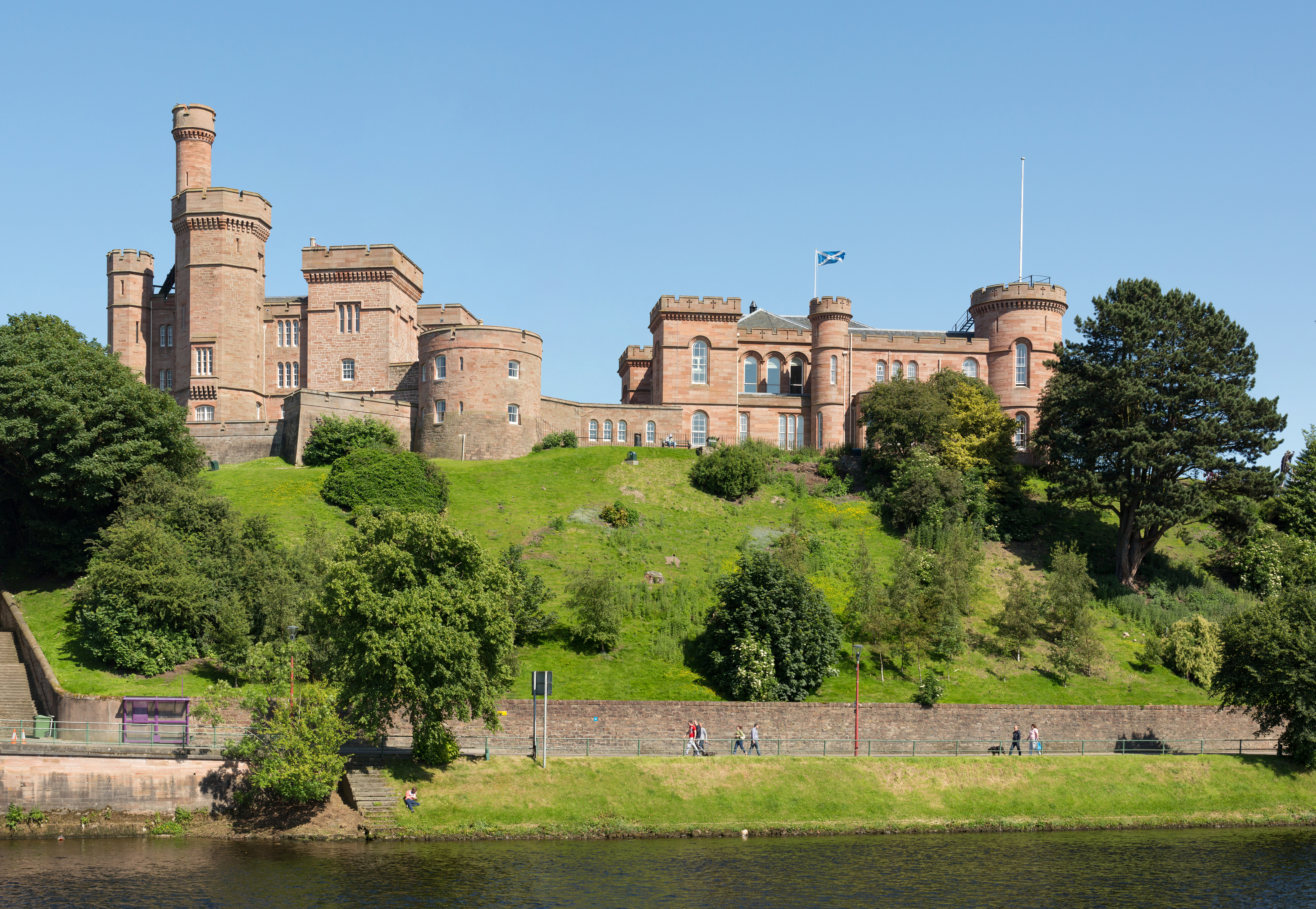 Inverness Castle as viewed from the west across the River Ness.